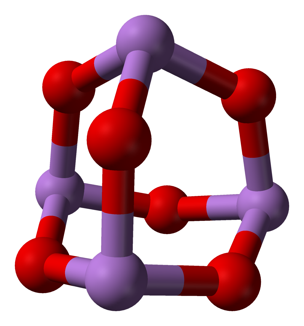 Ball-and-stick model of the As4O6 molecule as found in the crystal structure of arsenolite, the low-temperature, cubic form of arsenic trioxide, As2O3. X-ray crystallographic data from P. Ballirano, A. Maras (2002). "Refinement of the crystal structure of arsenolite, As2O3". Z. Krist. 217: 177-178.. Model constructed in CrystalMaker 8.1. Image generated in Accelrys DS Visualizer.